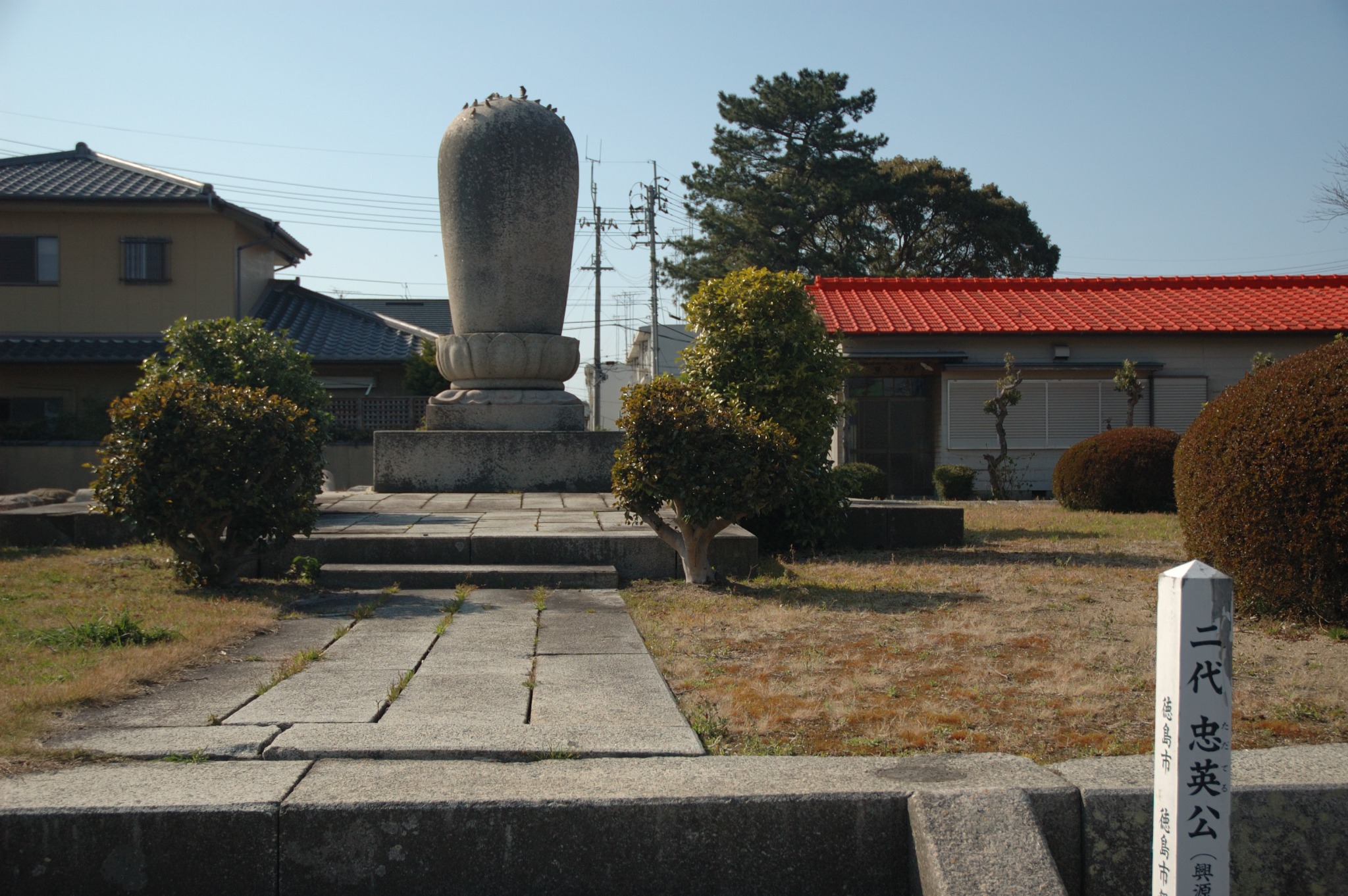 grave of Hachisuka Tadateru(the second feudal lord)